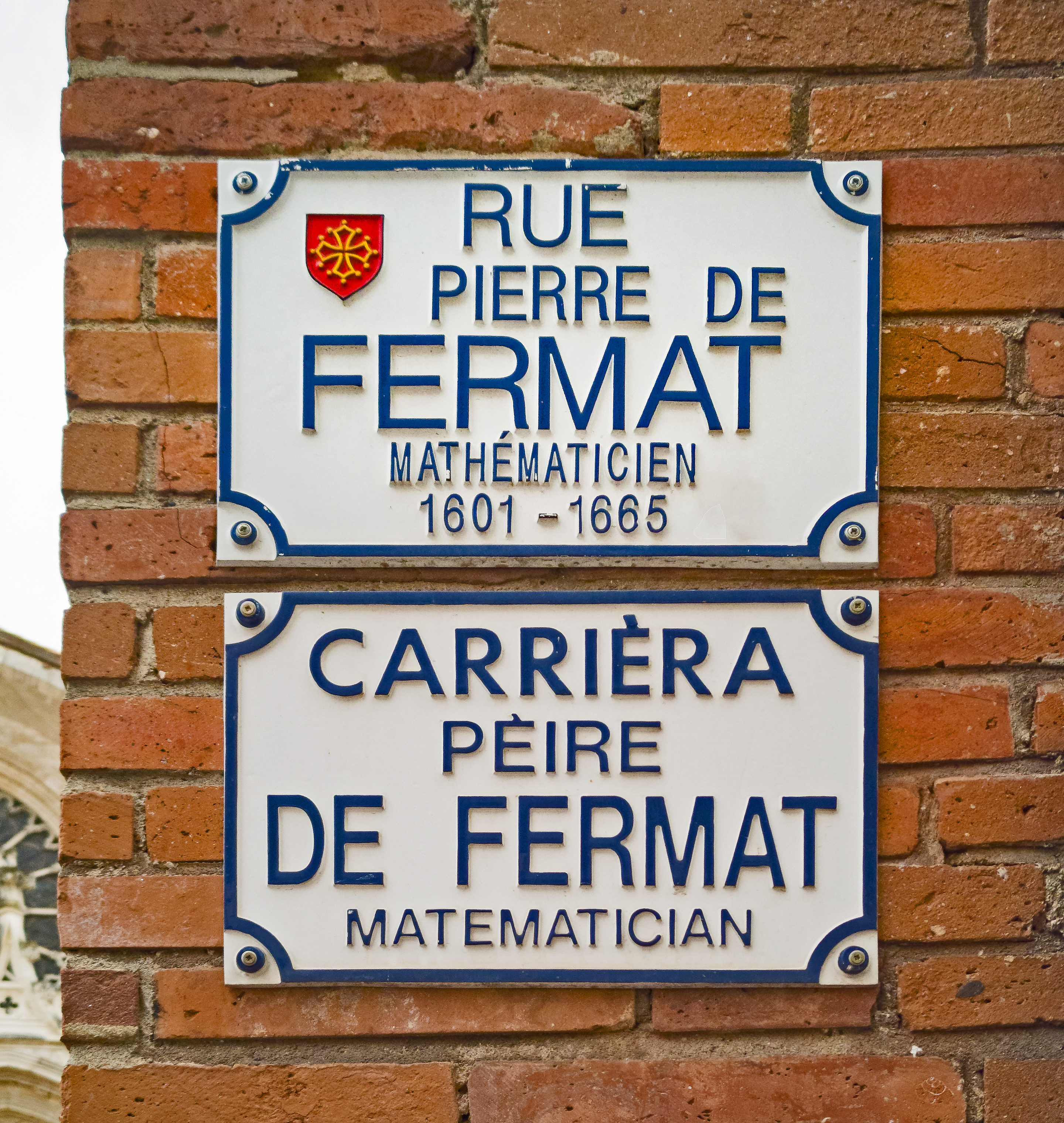 Rue Pierre de Fermat, in Toulouse - Street name sign. They have the particularity of being: in French and Occitan.